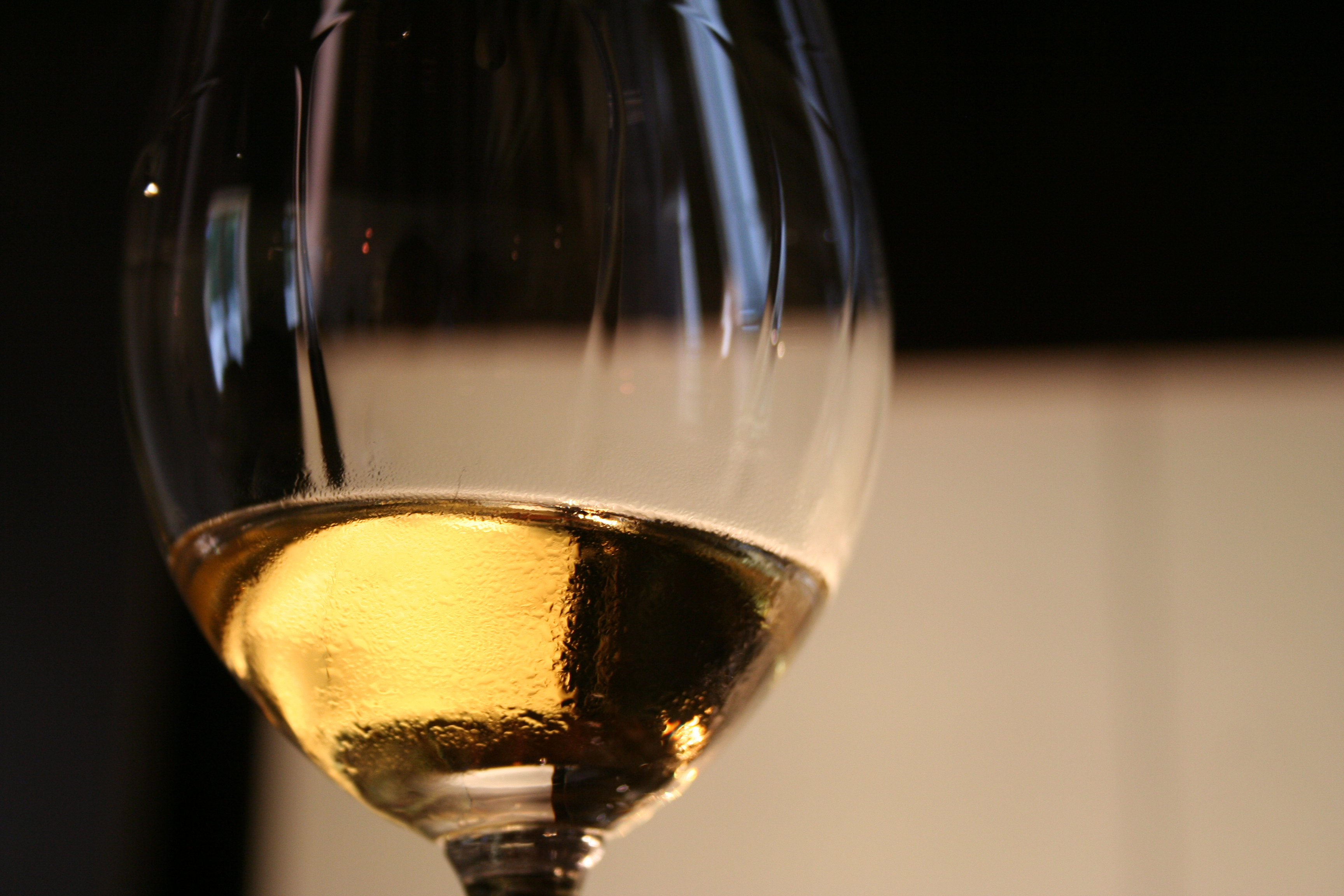 A glass of the French Botrytized dessert wine from the Bordeaux wine region of Sauternes.